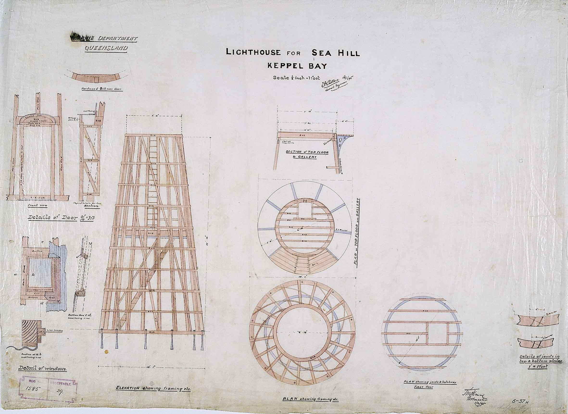 Lighthouse for Sea Hill, Keppel Bay, 1895.jpg